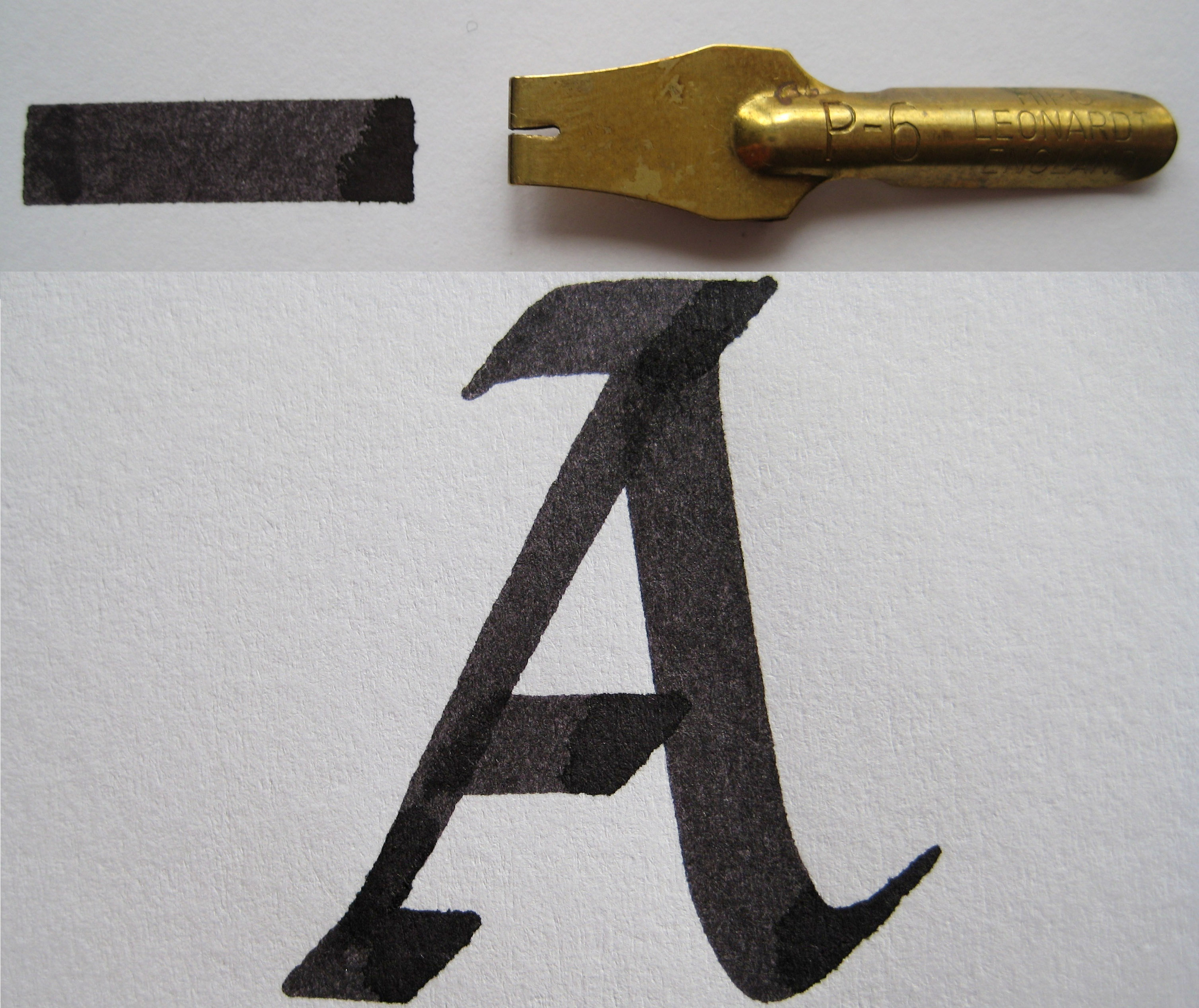 Poster nib with a stroke and writing sample